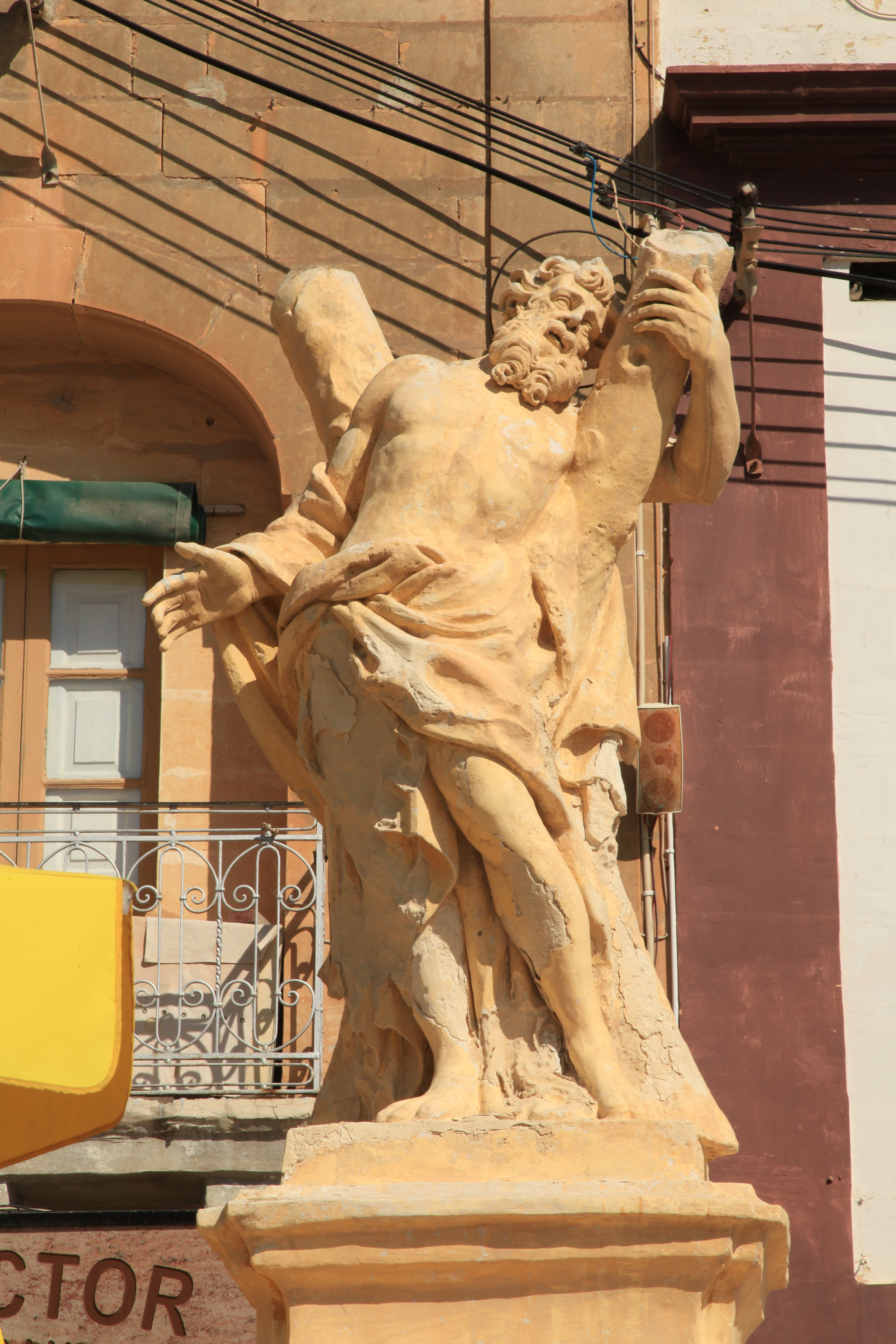 Pjazza l-Madonna ta' Pompei in Marsaxlokk, Malta